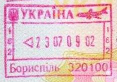 Passport exit stamp from Boryspil Airport, Kyiv